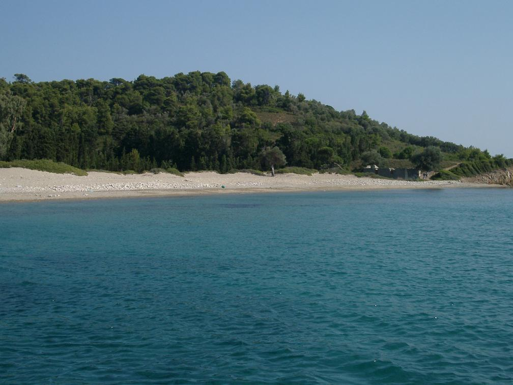 Island of Tsougria - Northern Sporades - Greece